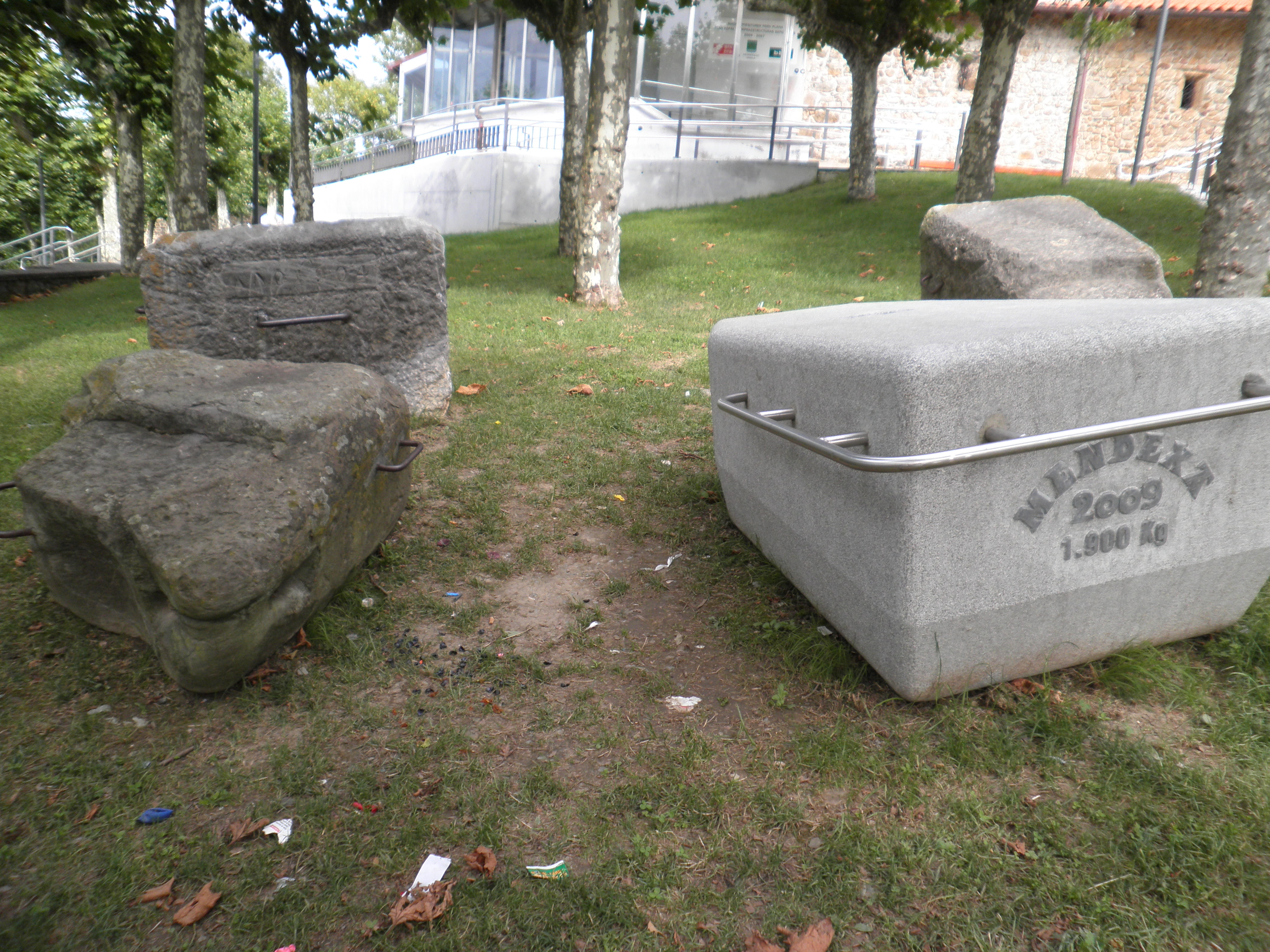 Idi-dema stones in mendexa, Biscay.